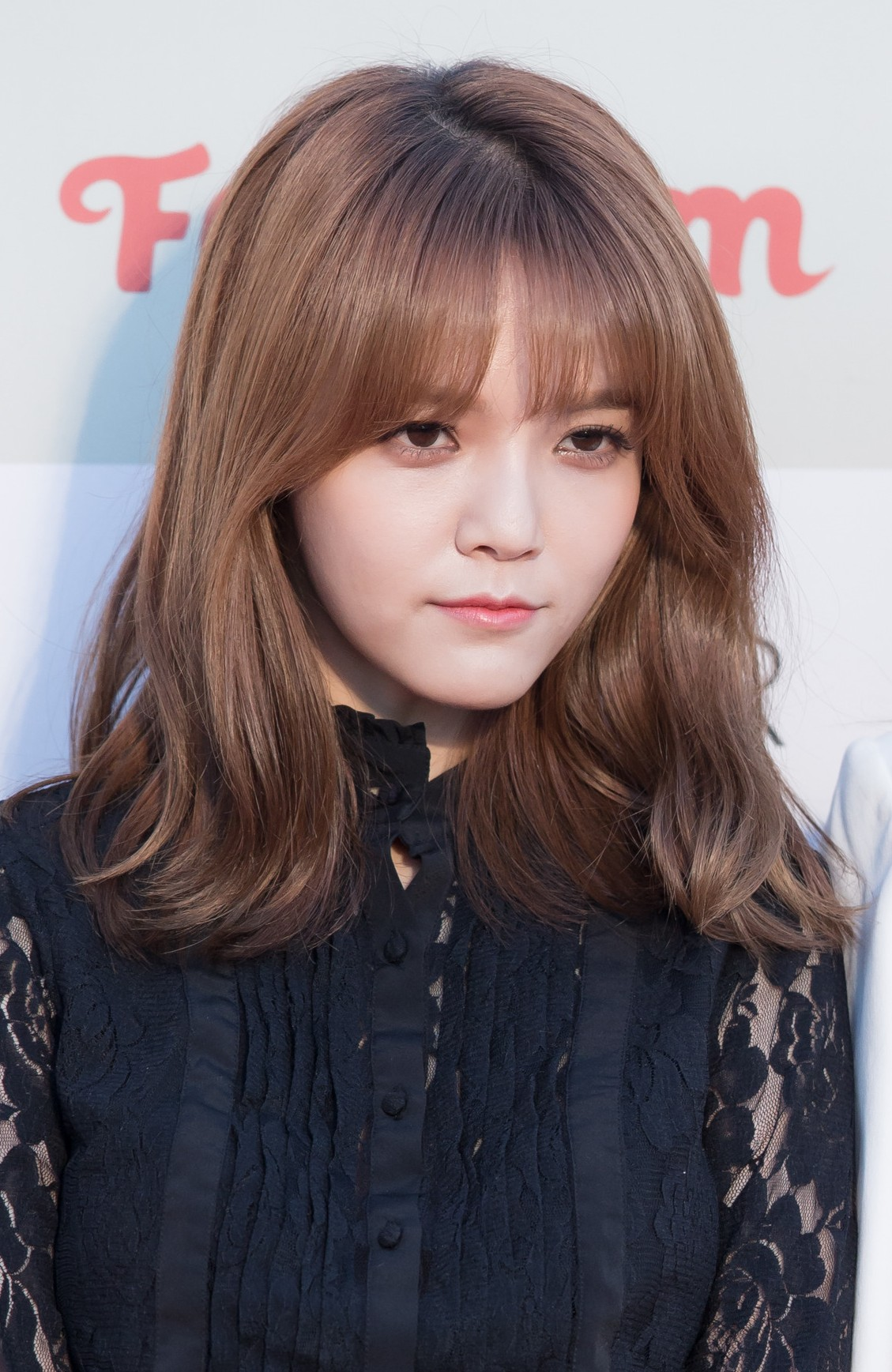 AOA Gaon Chart Kpop Awards red carpet, 17 February 2016